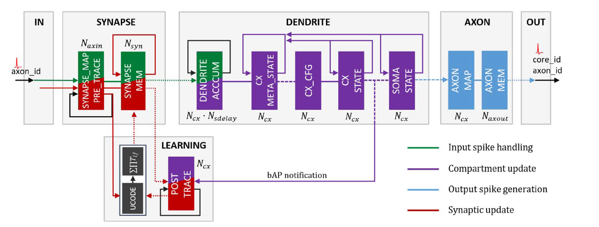 Core Top-Level Microarchitecture